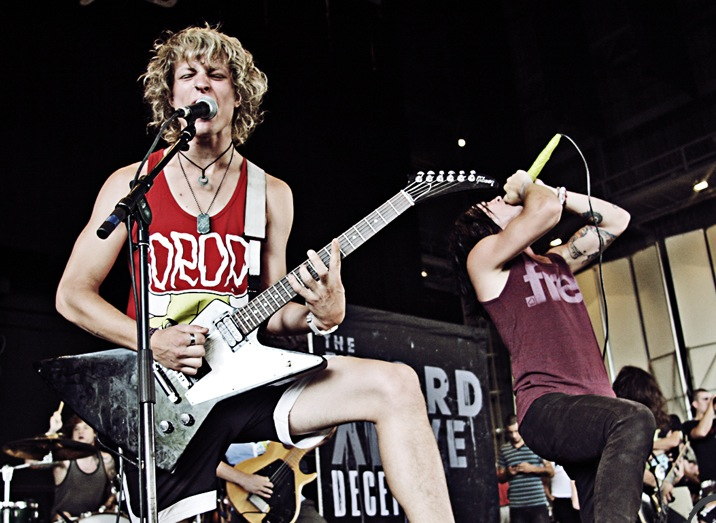 The Word Alive performing at Warped Tour in Cincinnati, Ohio on July 28, 2010